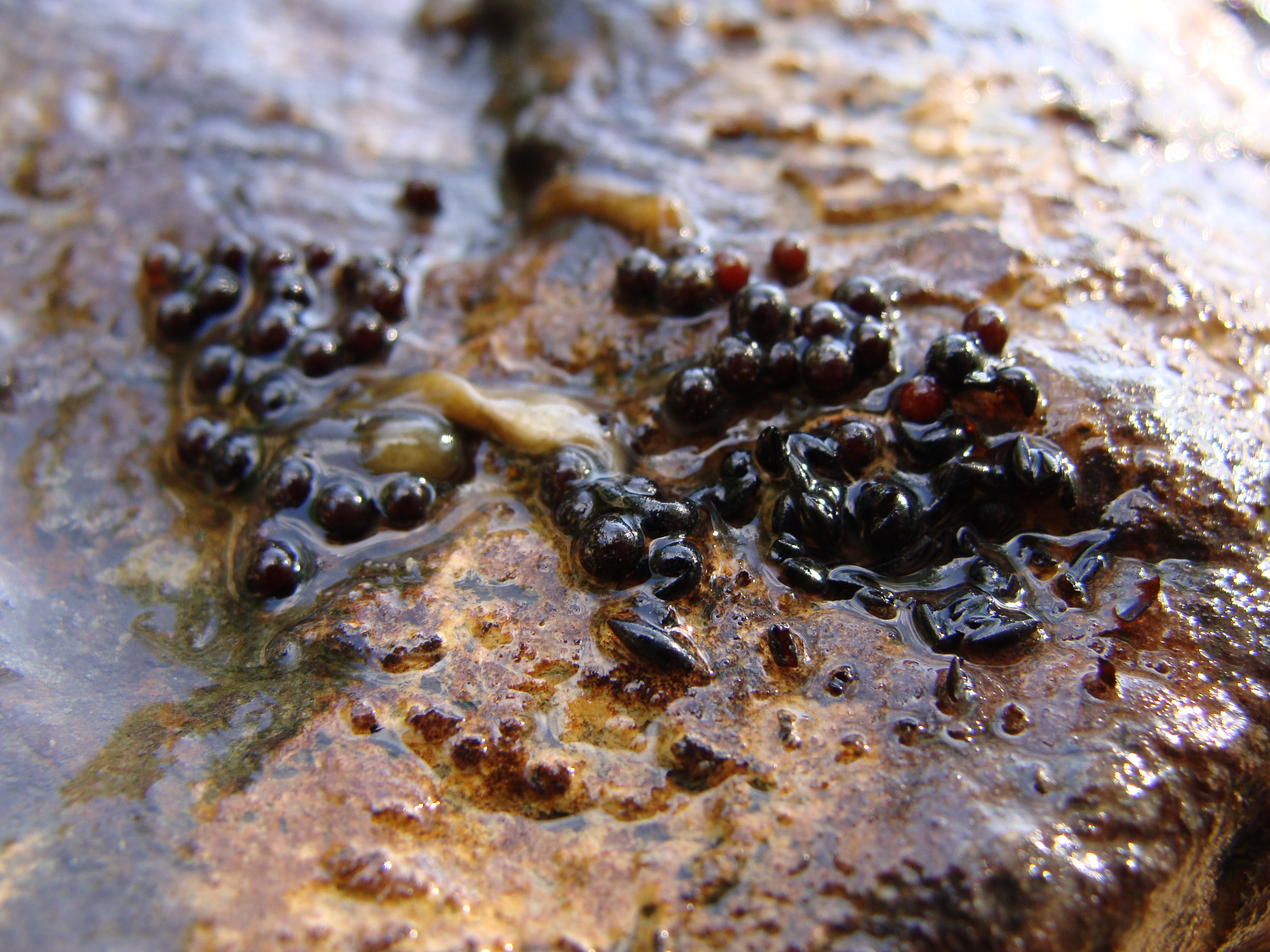 Dugesiidae (probably Dugesia) cocoons from the Iberian Peninsula.